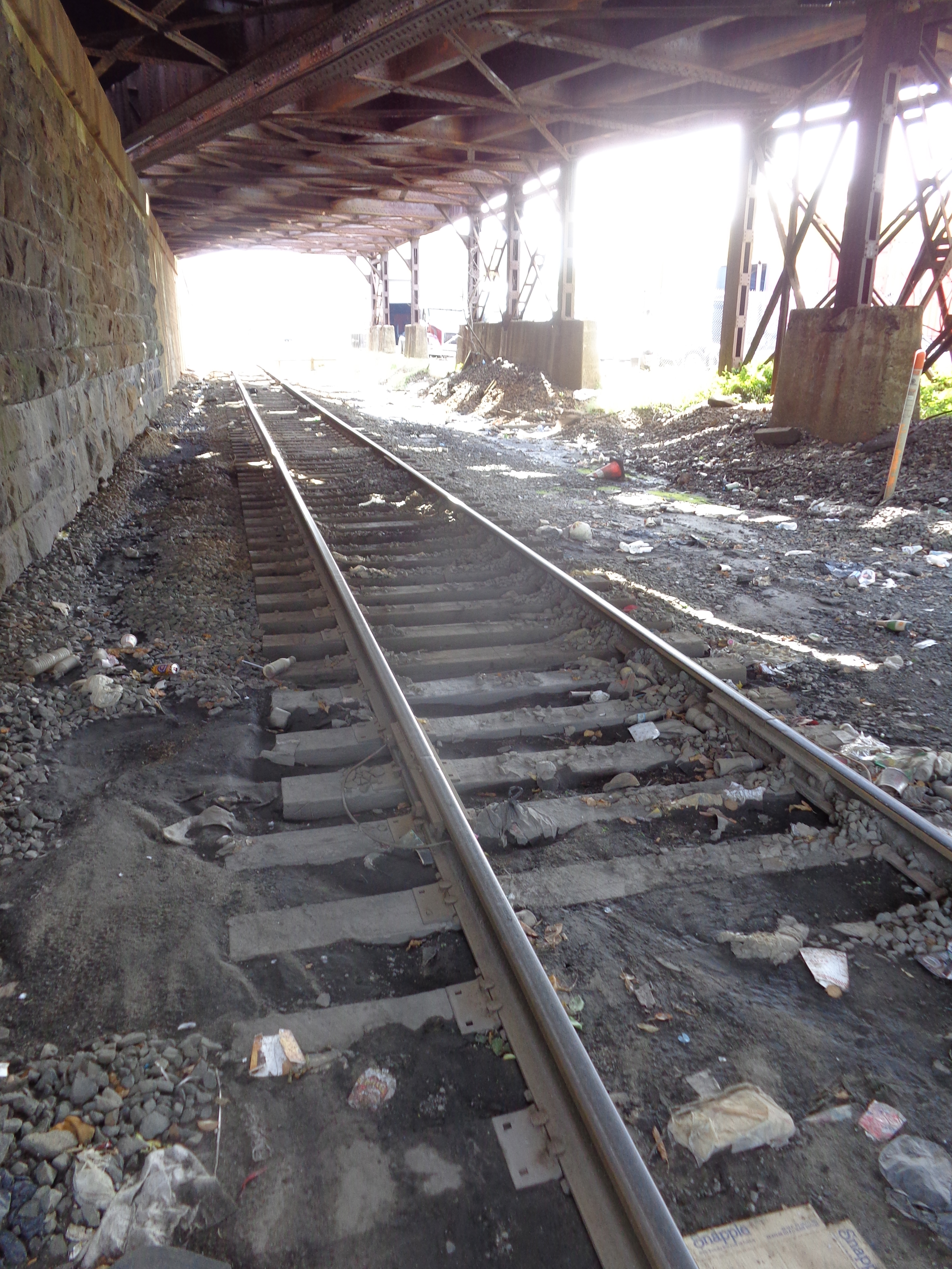 CSX at Babbitt, North Bergen. Former Erie Northern Branch passes under former NYC West Shore north of former Granton Junction near 83rd Street. Hudson-Bergen Light Rail Northern Branch Corridor Project calls for closure of at-grade crossing